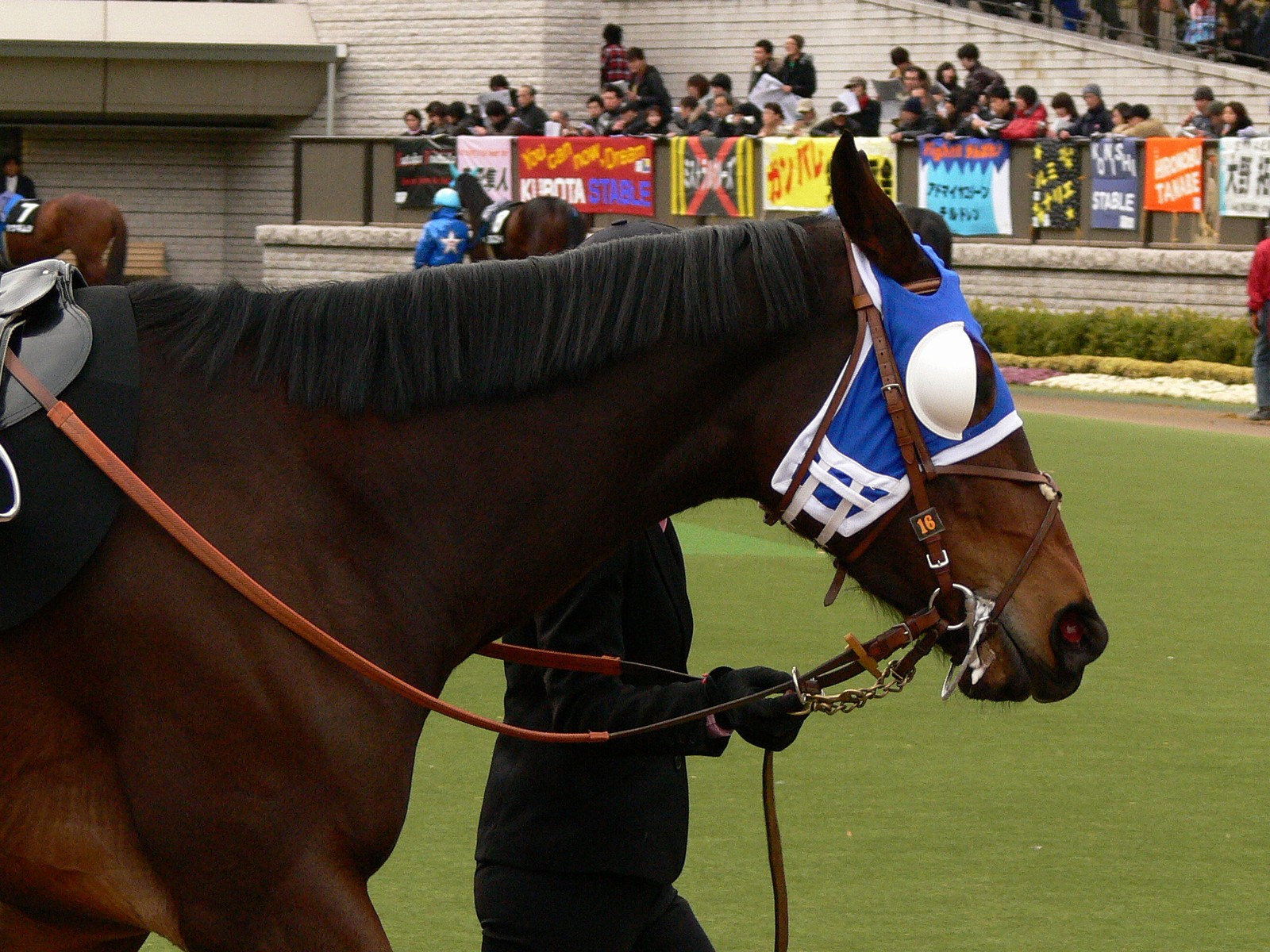 Horse that has worn blinkers(Stolen Bride(JPN)).